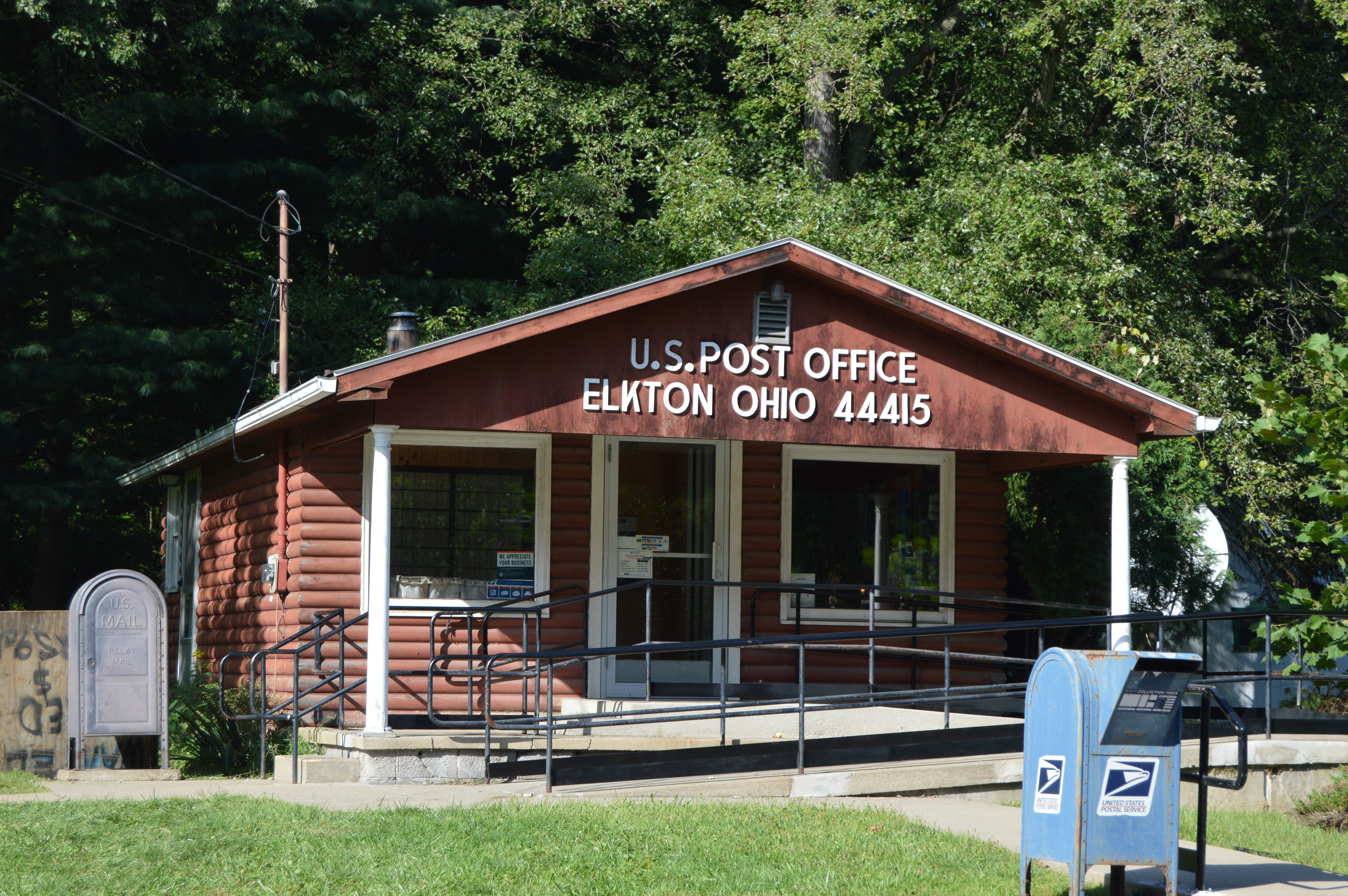 Front and western side of the post office in Elkton, Ohio, United States, located on State Route 154.